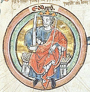 Edward I